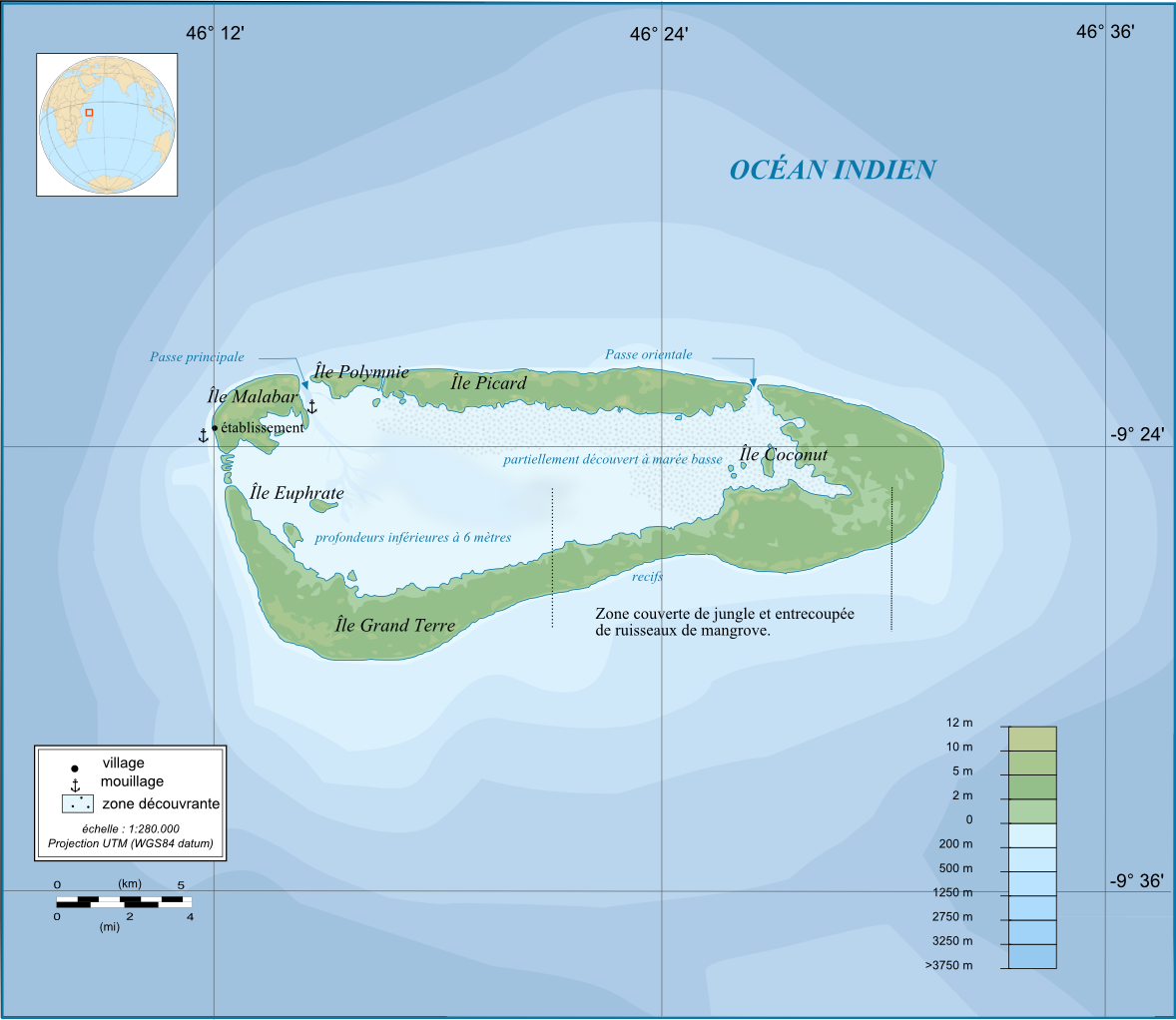 Topographic map in French of Aldabra island, Seychelles